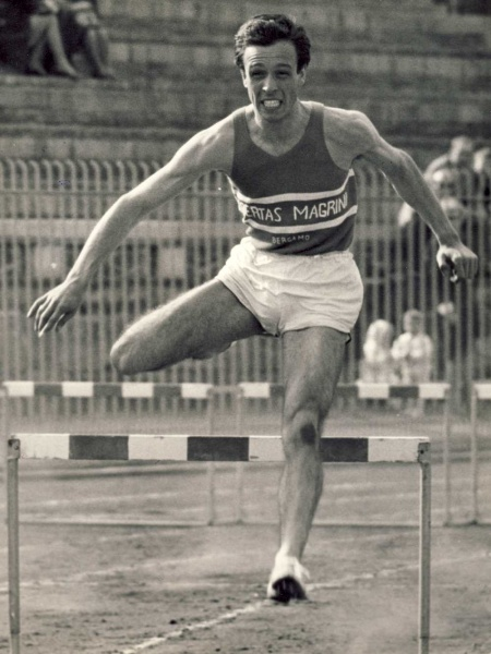 Salvatore MoraleSalvatore Morale in race in Italy in the 1960s.